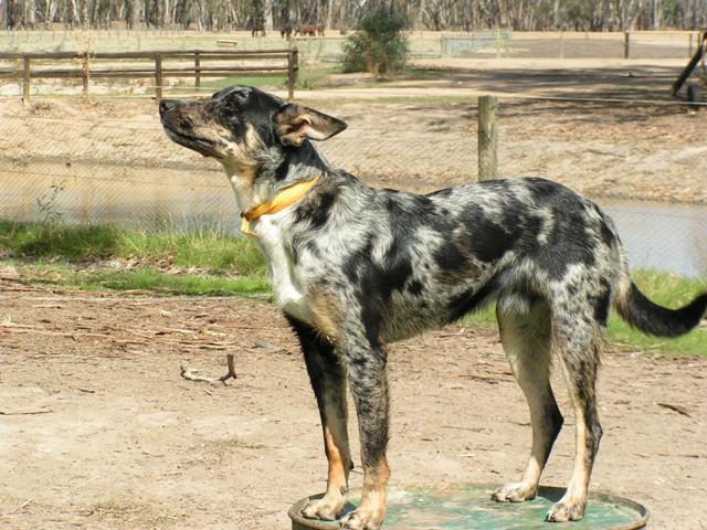 Koolie blue merle, smooth coat